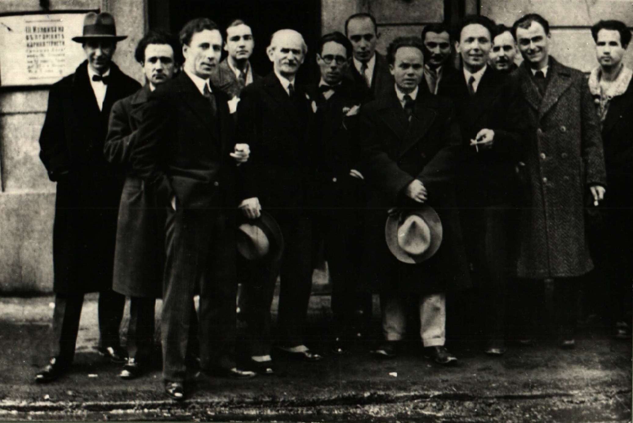 Aleksandar Zhendov, Kiril Buyukliyski, Rayko Aleksiev, Aleksandar Bozhinov, Stoyan Venev, Iliya Beshkov